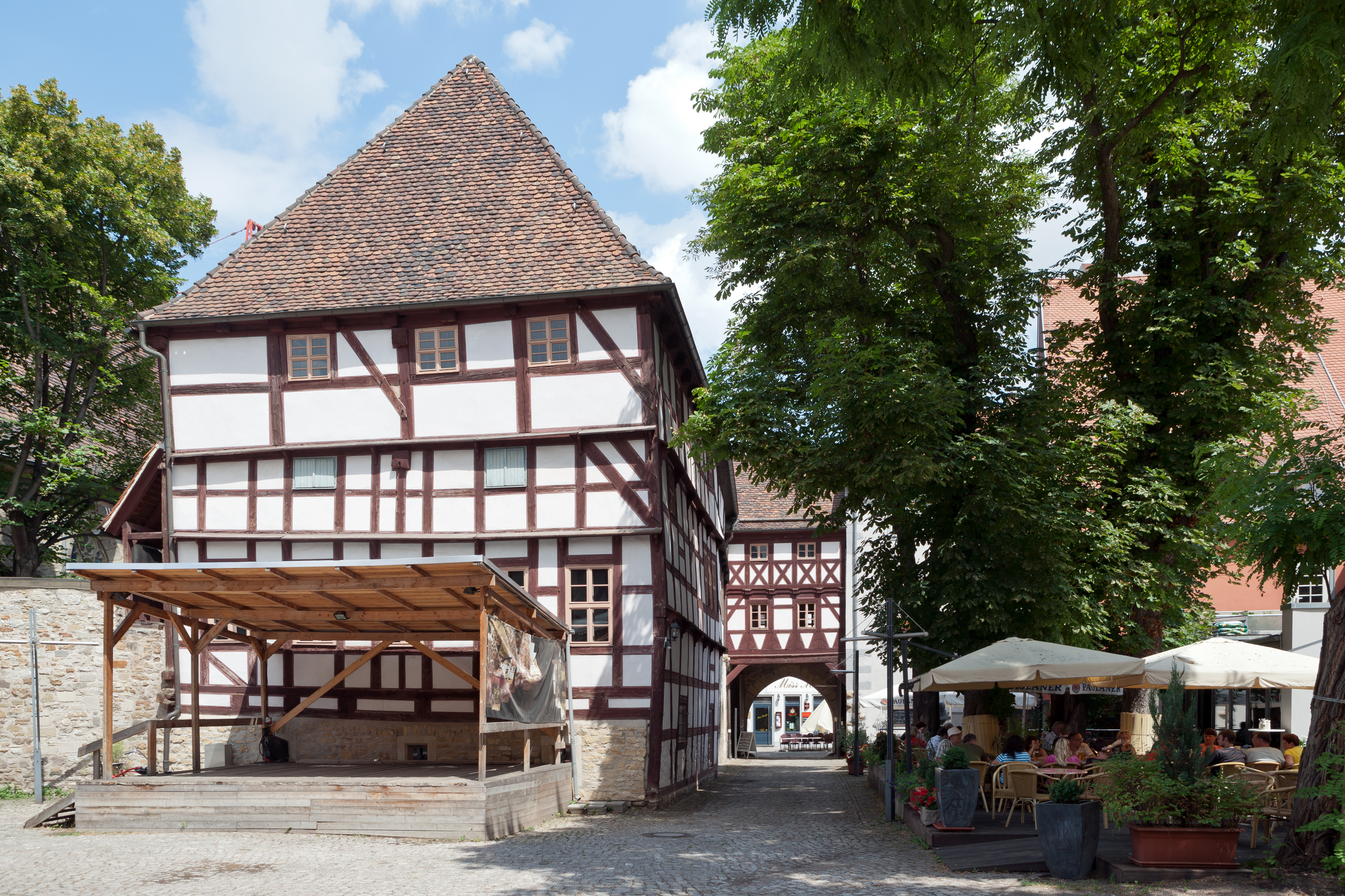 Erfurt: Haus zum Güldenen Krönbacken (House to the Güldener Krönbacken), courtyard as seen from the southwest